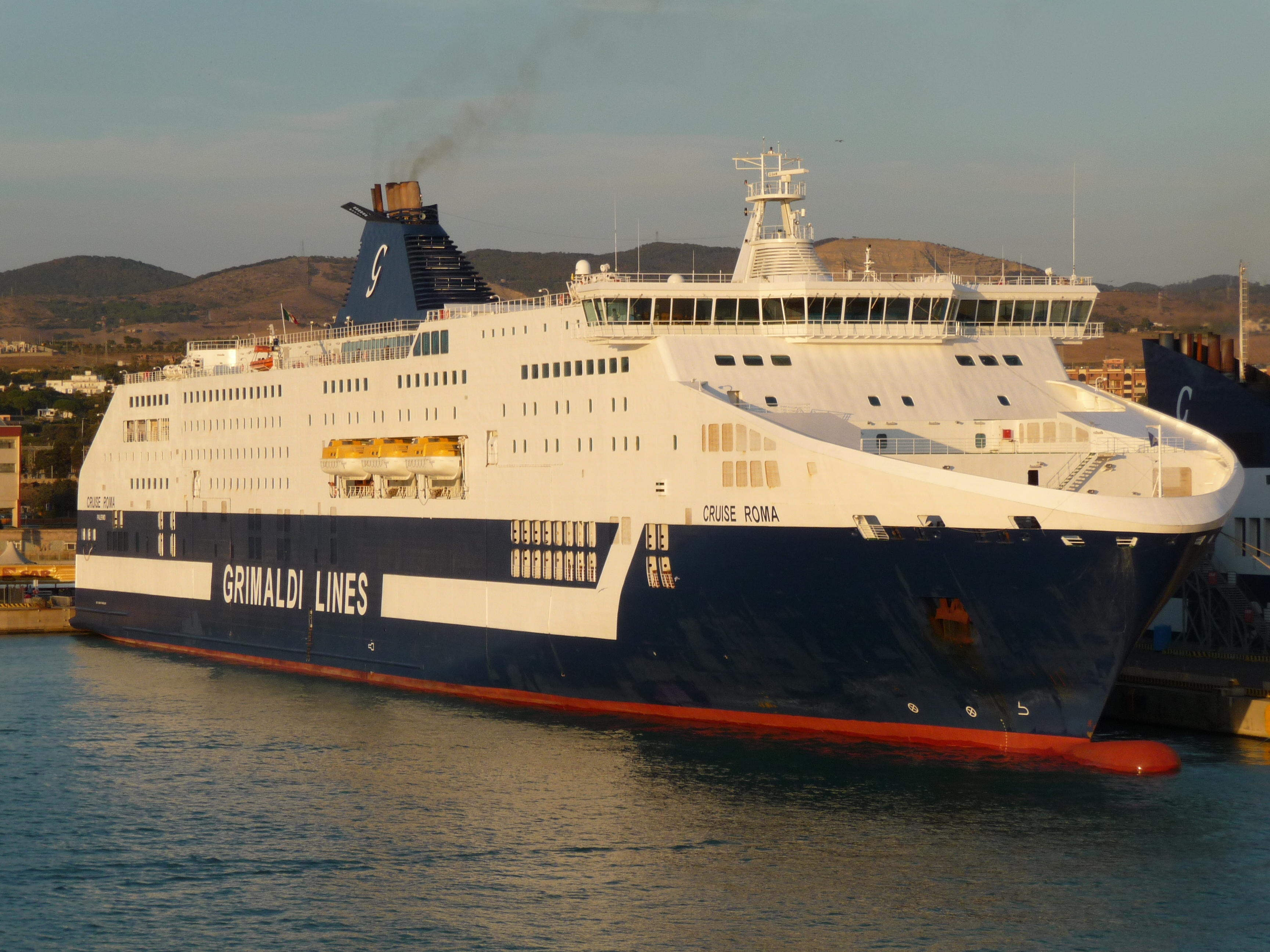 MS Cruise Roma at Civitavecchia harbour IMO Number: 9351476 MMSI Number: 2472194000 Callsign: IBWO Length: 224 m Beam: 30 m